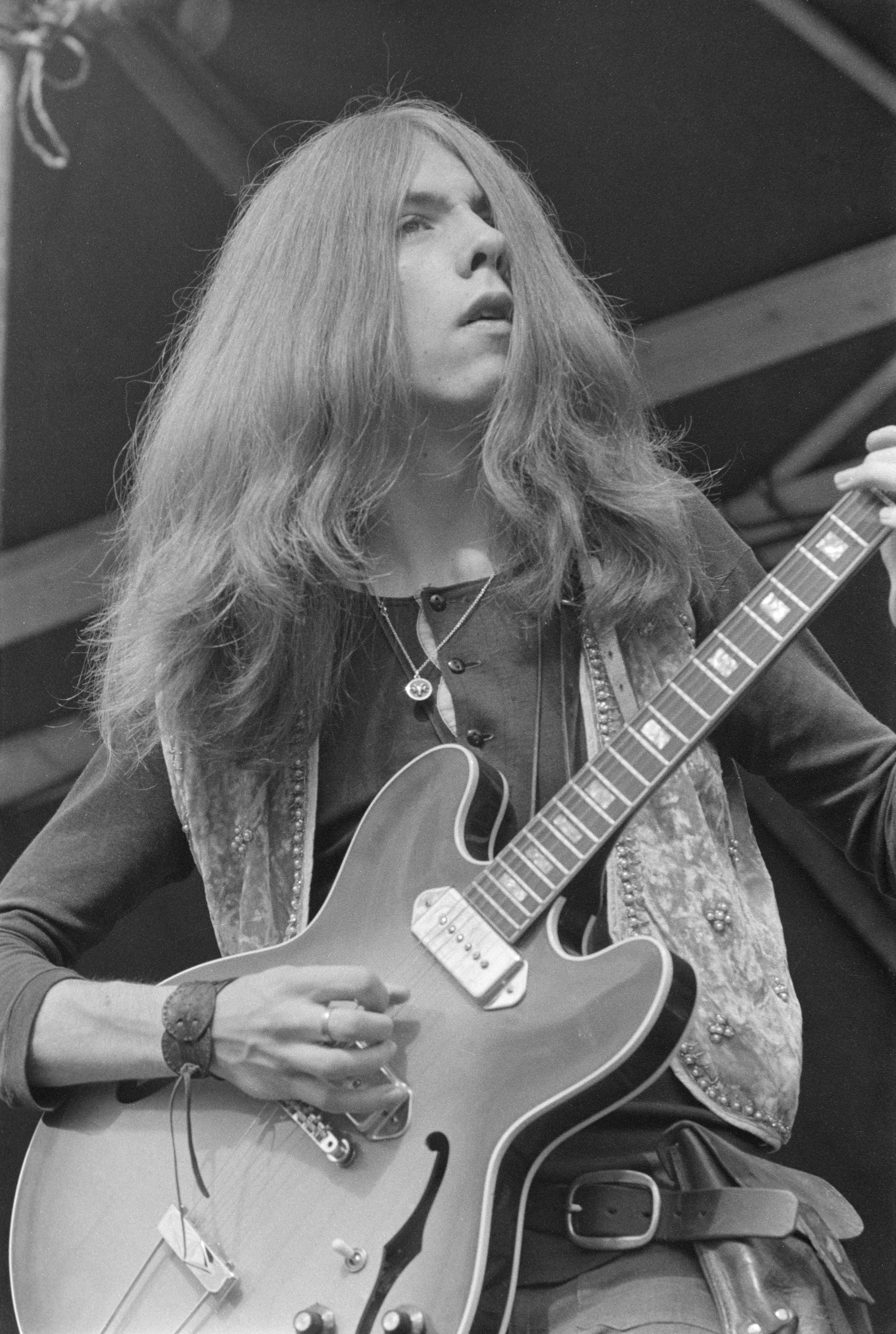 Photograph of the Finnish guitar player Jukka Tolonen (1952–) of Tasavallan Presidentti at Ruisrock music festival.